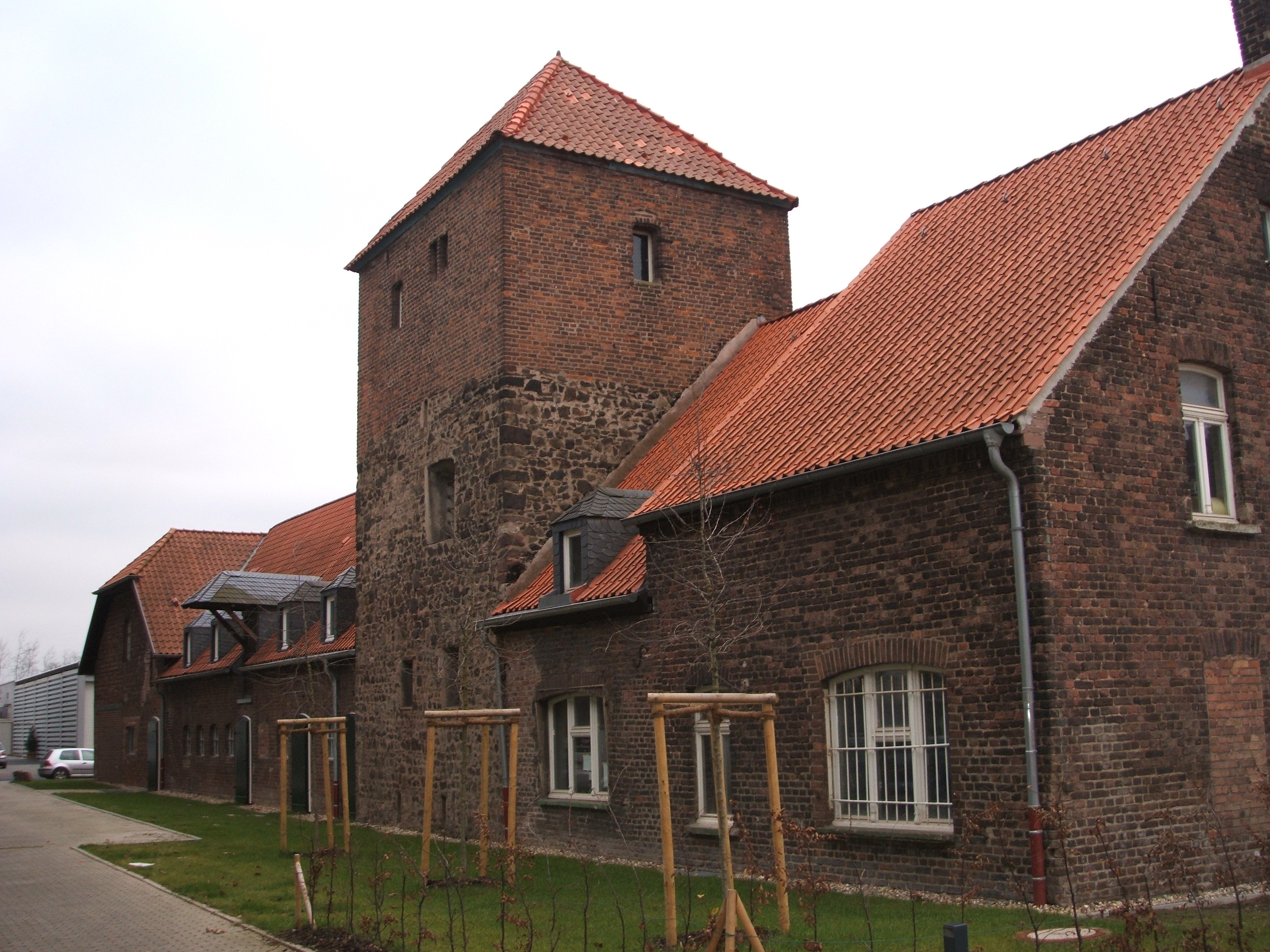 Recent photograph of historical building Steinhof in Duisburg-Huckingen (Germany)